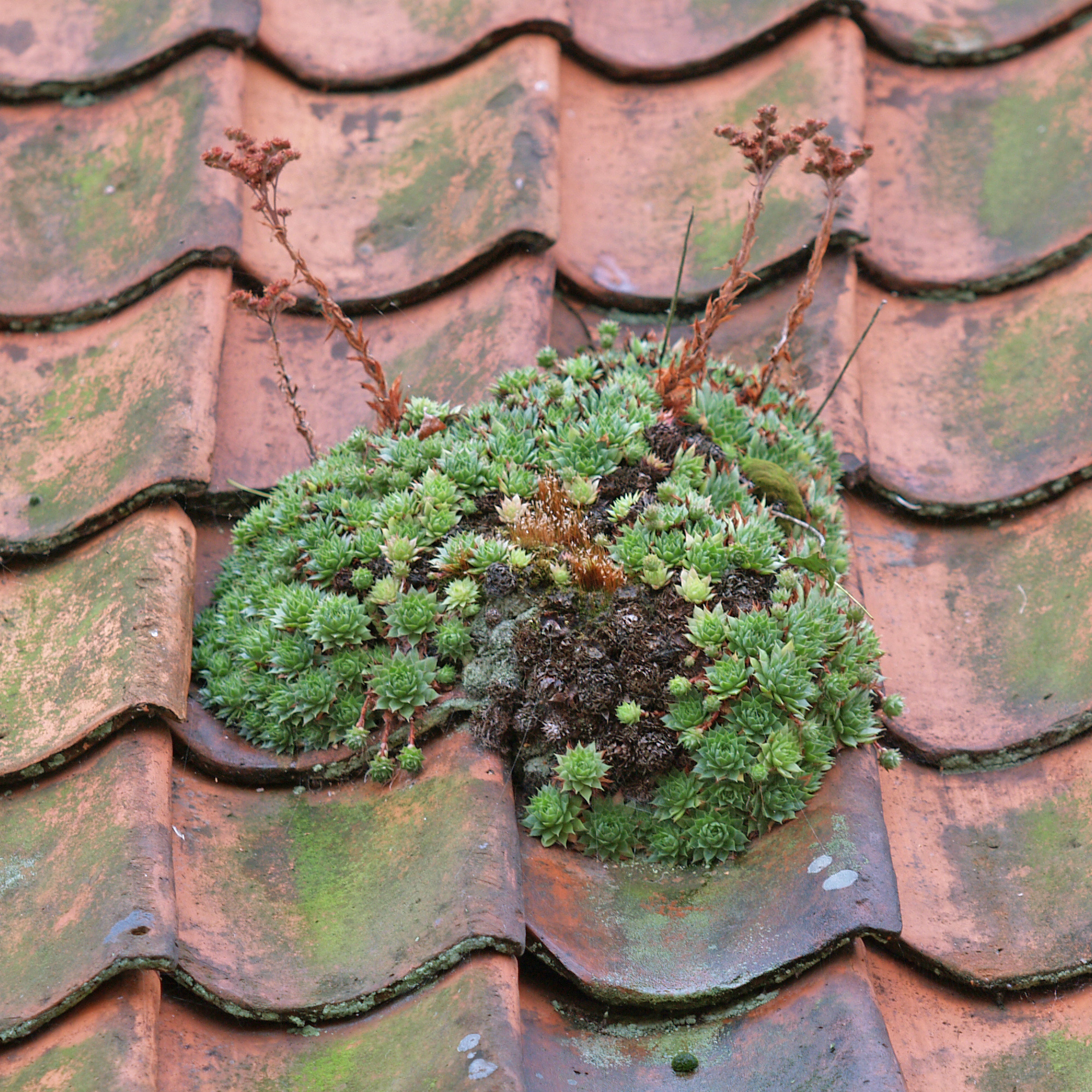 Sempervivum tectorum on a roof